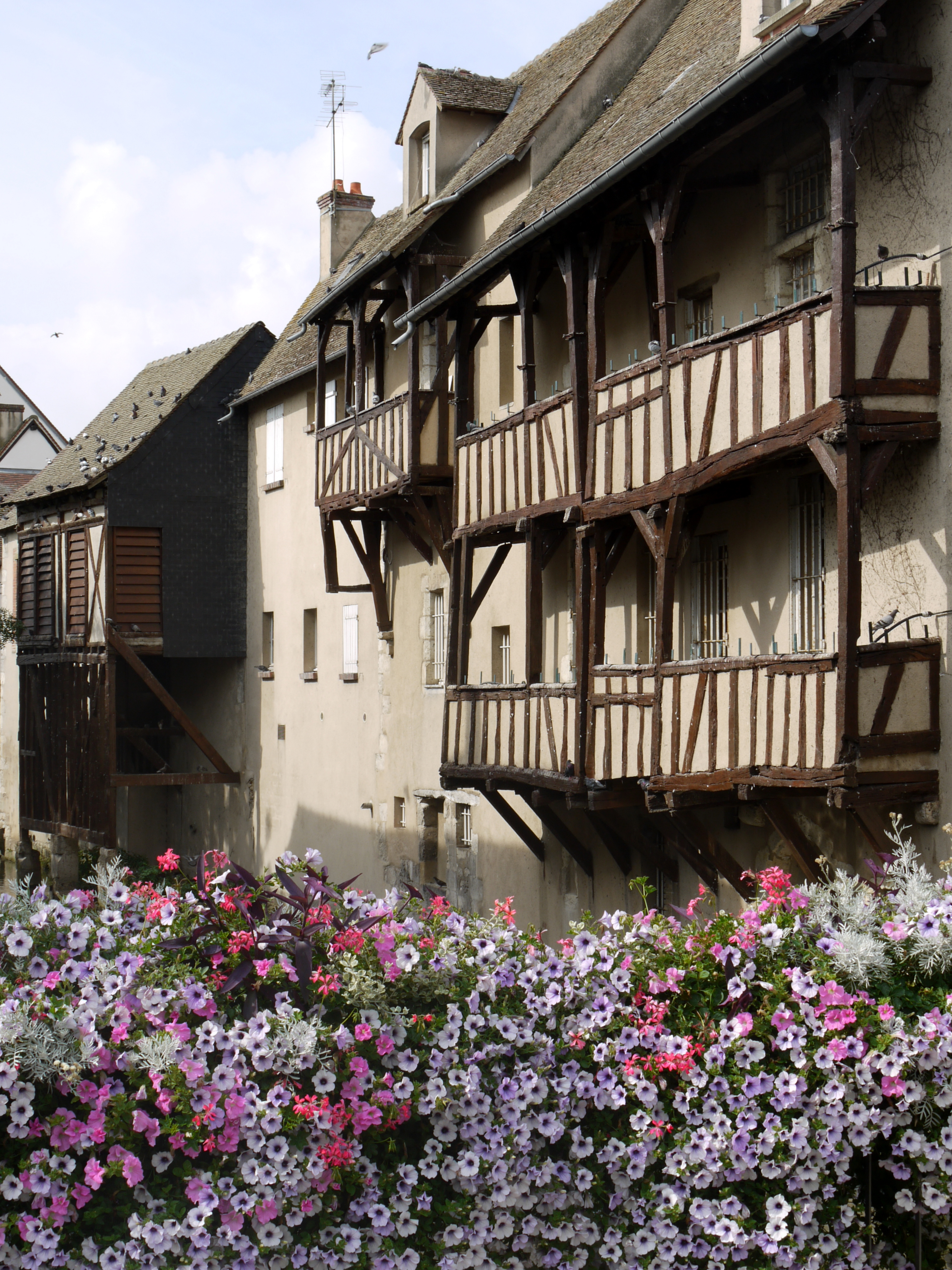 Old Houses in Montargis, France. The Puiseaux river, from the rue du Général Leclerc ; looking south (upstream).